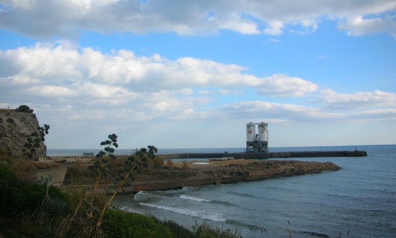 Vallcarca. The harbor of the cement factory north of Sitges